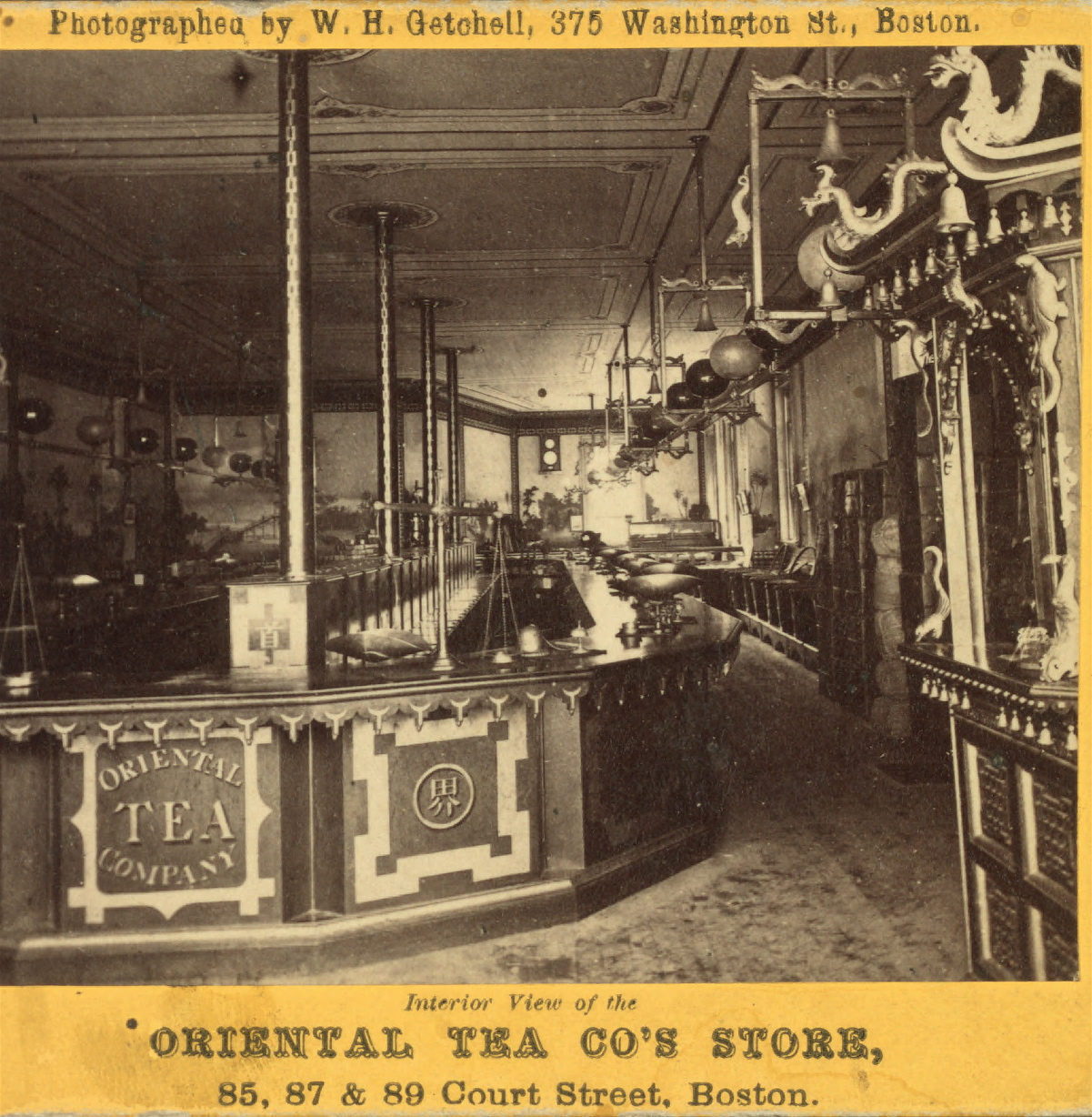 Interior view of the Oriental Tea Co's store; 85, 87, 89 Court Street, Boston. Photo by William H. Getchell.